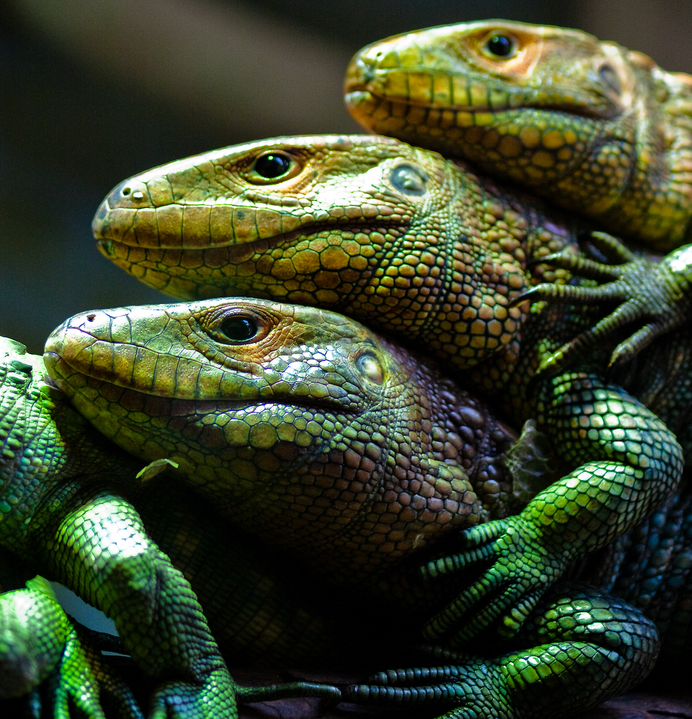 Caiman Lizards (Dracaena guianensis) in Fort Worth Zoo -- Yes, that's right. You see 3 lizard heads (and part of 2 lizard hind ends.) That's 5 lizards trying to hog the best spot to sun themselves.